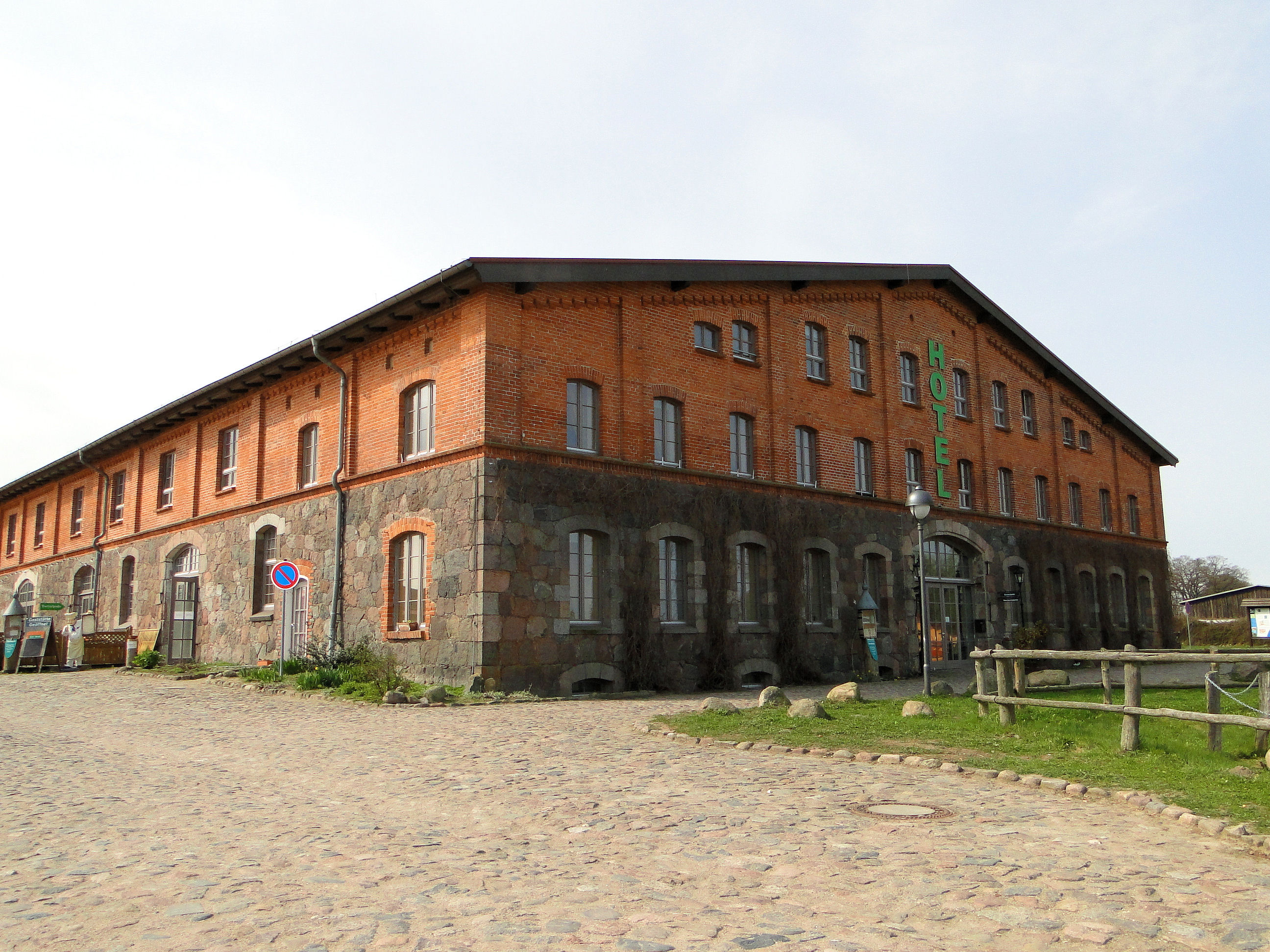 Barn in Bollewick, disctrict Müritz, Mecklenburg-Vorpommern, Germany